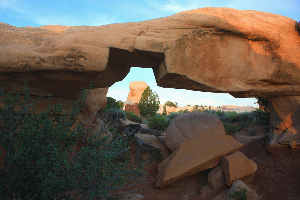 Grand Staircase-Escalante National Monument, Utah, USA, Devils Garden, Mano Arch, sunset